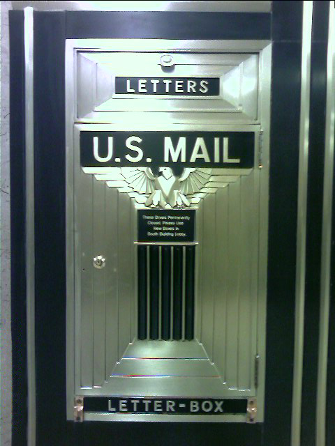 Mailbox from lobby of Chicago Board of Trade building